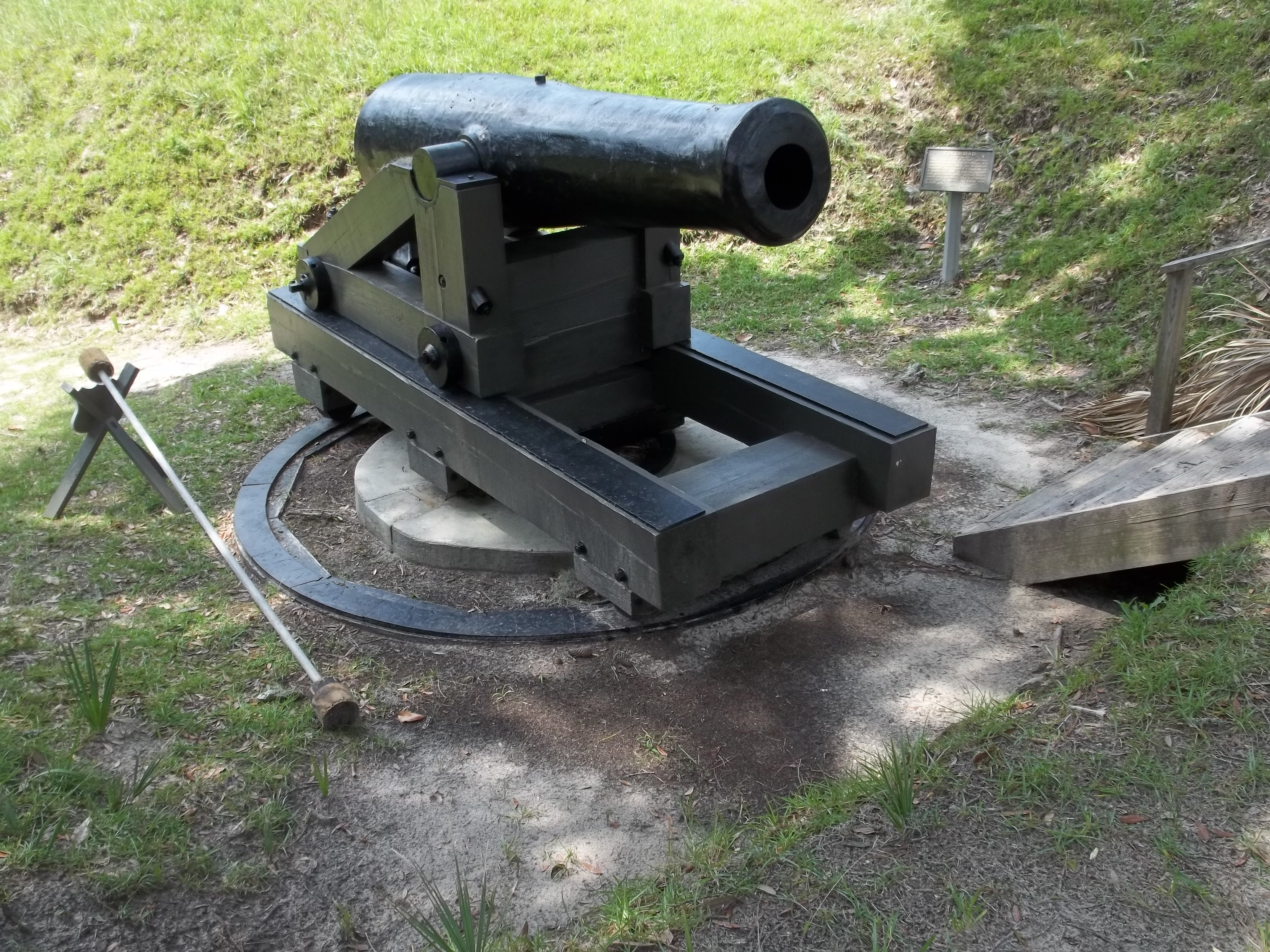 Darien, Georgia: Fort McAllister Historic Park: Columbiad